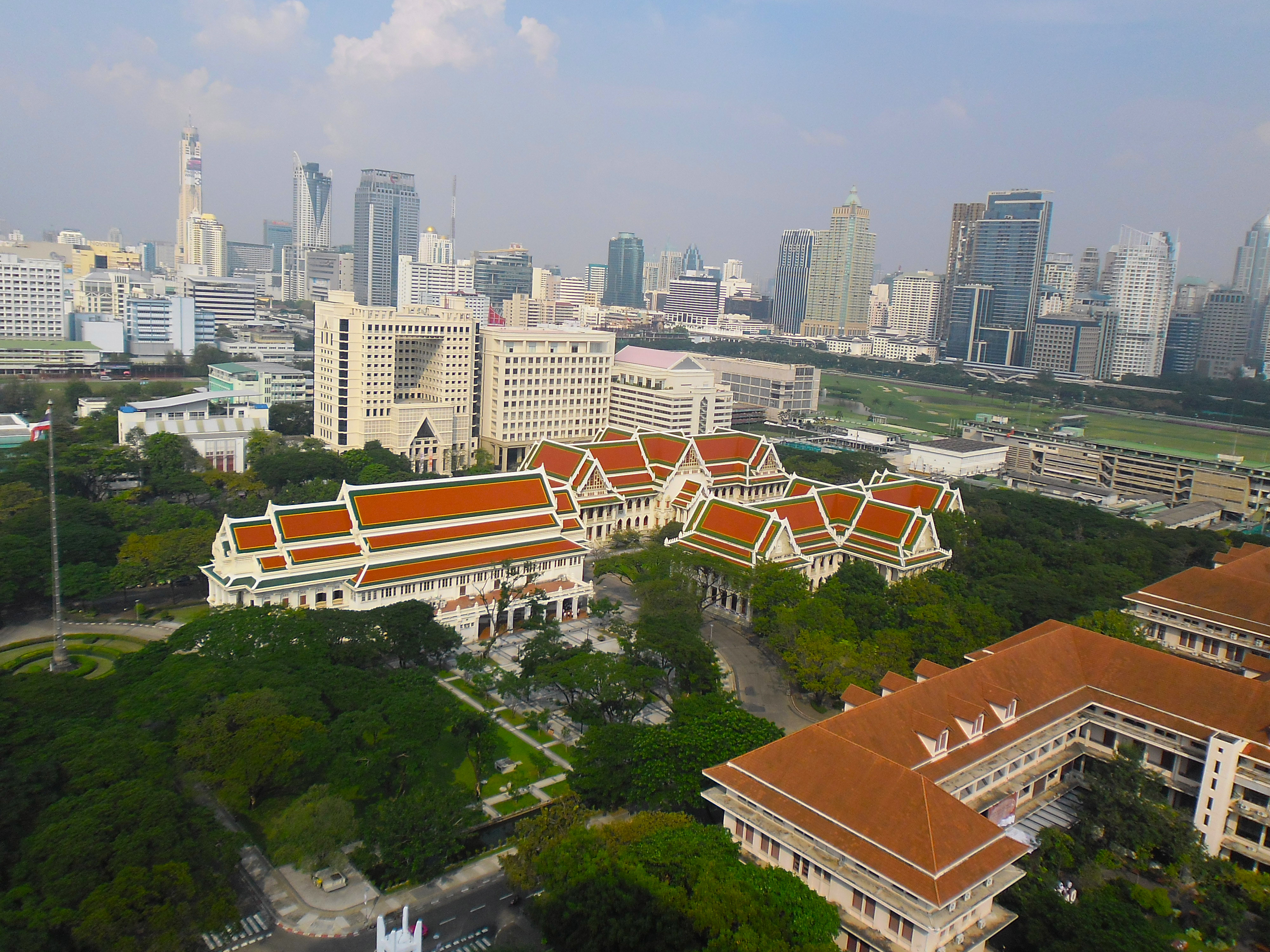 Eastern portion of Chulalongkorn University as photographed from 20th floor of Math building.